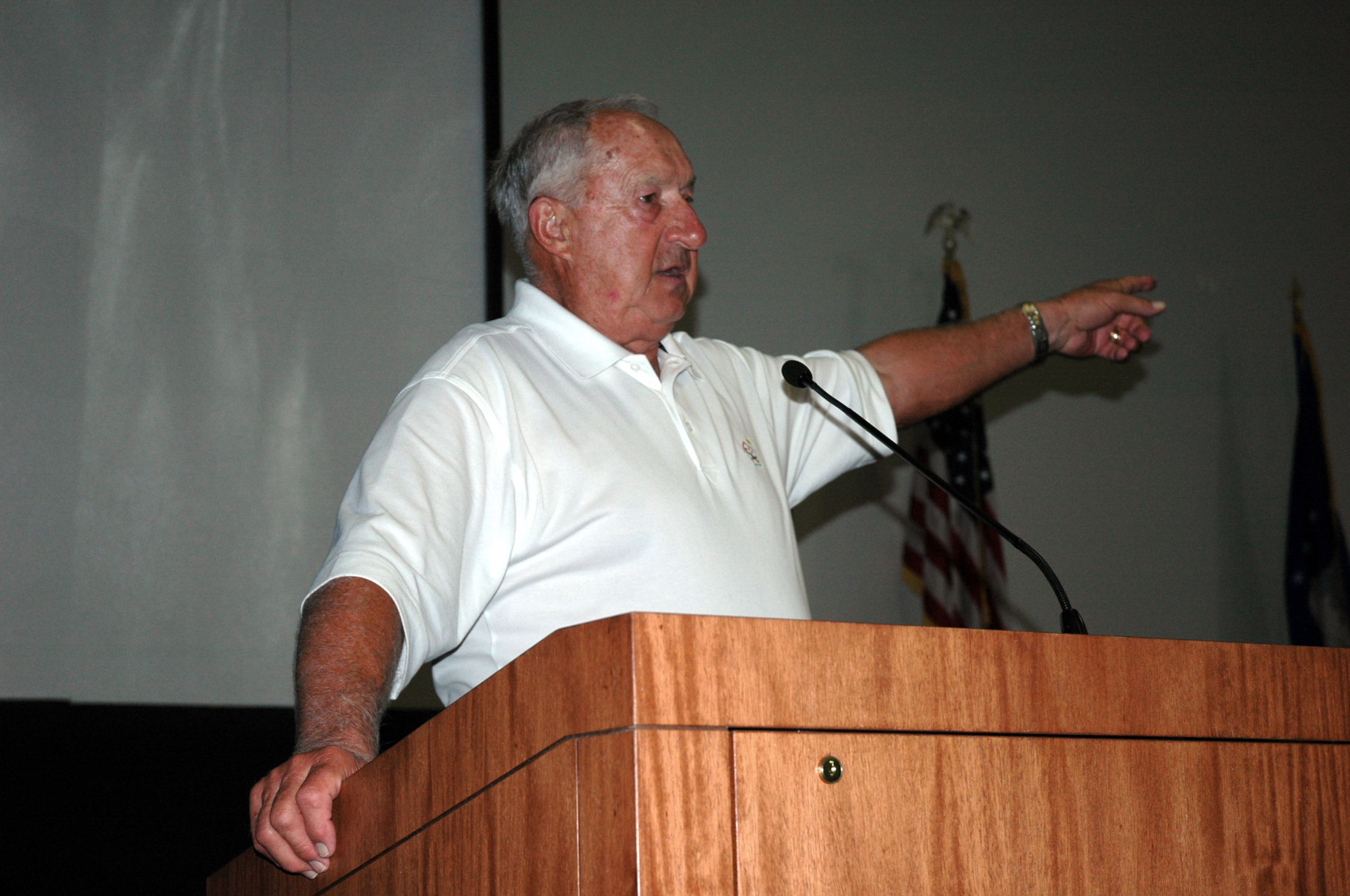 Edmund "Zeke" Bratkowski, a former all-star NFL quarterback for the University of Georgia, Chicago Bears, Los Angeles Rams and Green Bay Packers, points to the direction of Duke Field's flight line while he describes his efforts to land a drone aircraft there more than 50 years ago as an Air Force director pilot in the 3205th Drone Squadron. Mr. Bratkowski was inducted as an honorary 919th Special Operations Wing Top 3 member June 7.